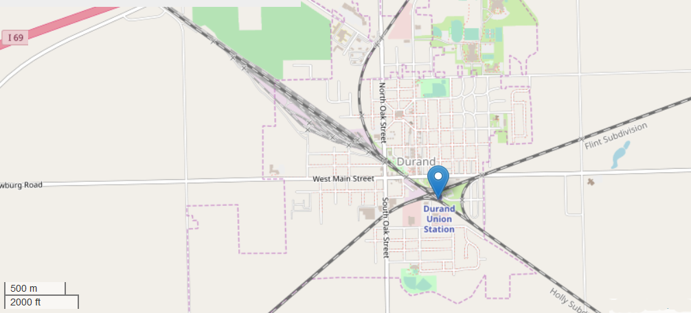 Location of the Durand Union station at the crossing of two CN subdivisions.